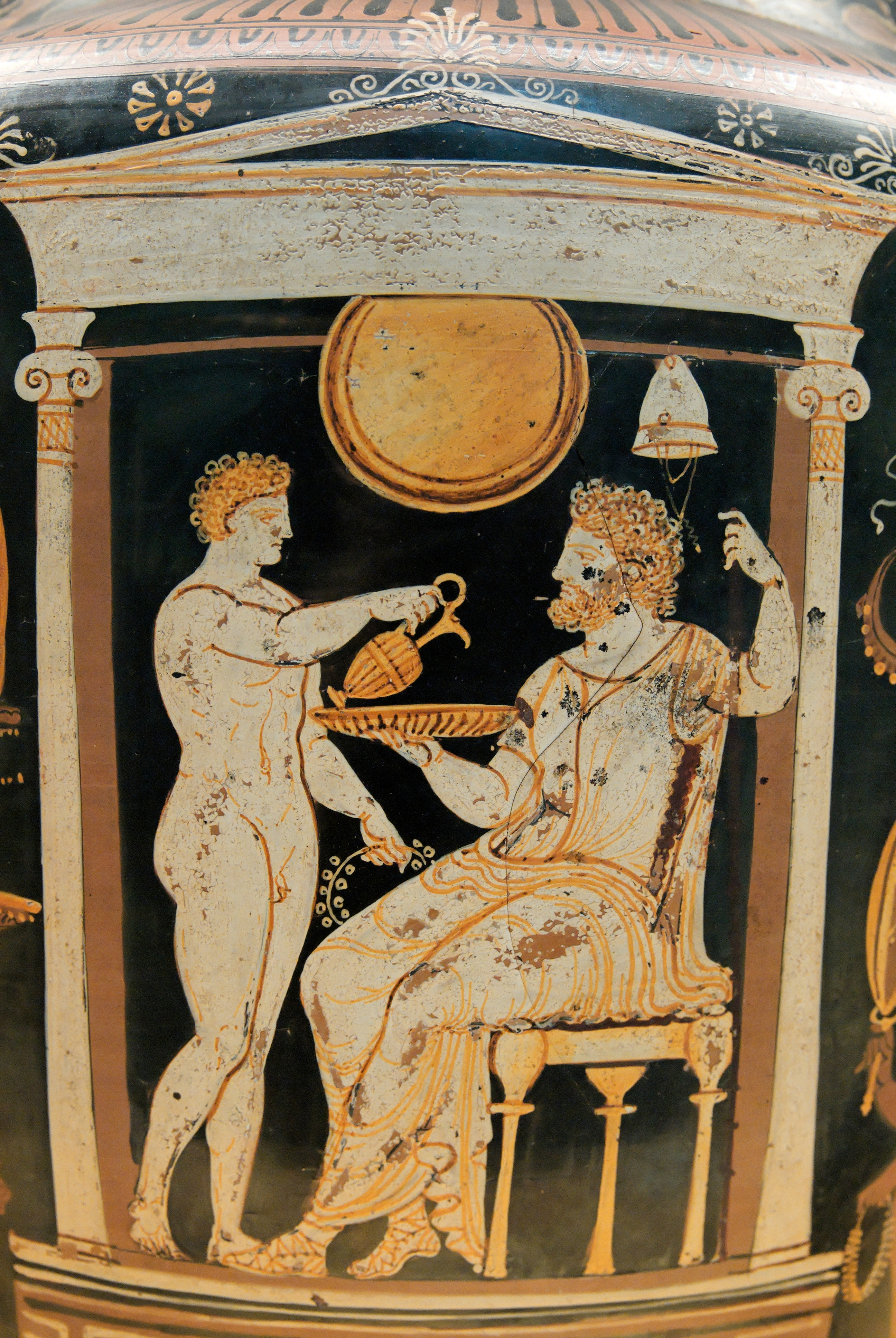 A youth pours a libation to the dead man sitting in a naiskos. Side A of an Apulian red-figure volute-krater pelike, 340–320 BC.